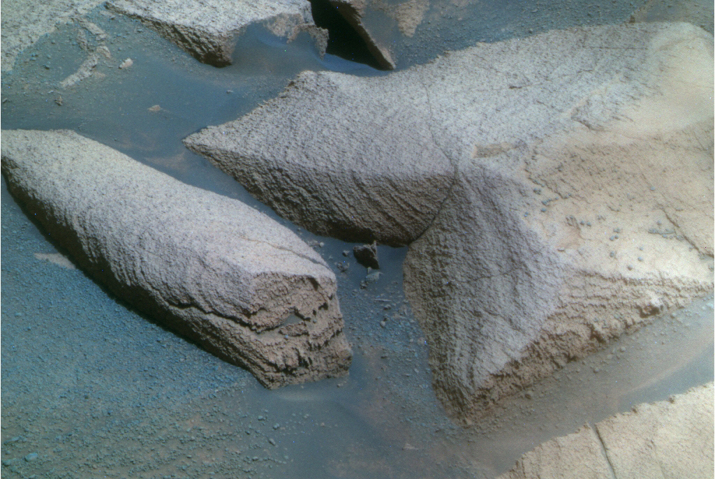 Mars Rover Opportunity, Sol 1341: Possible original surface material in Victoria Crater Nasa Press Release Image credit: NASA/JPL-Caltech/Cornell Image Usage Policy